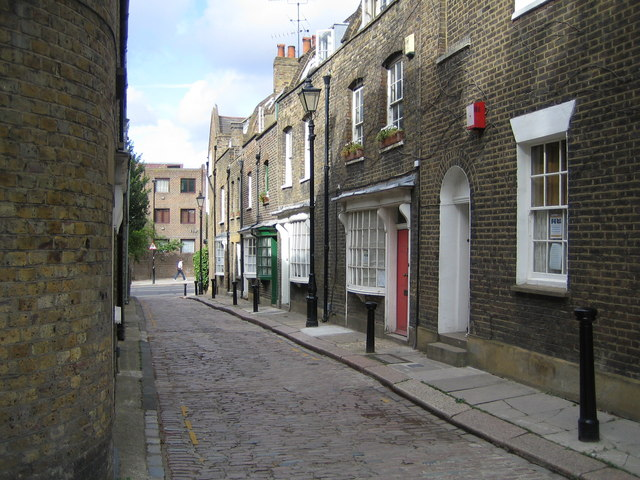 Dartmouth Park: Little Green Street, NW5